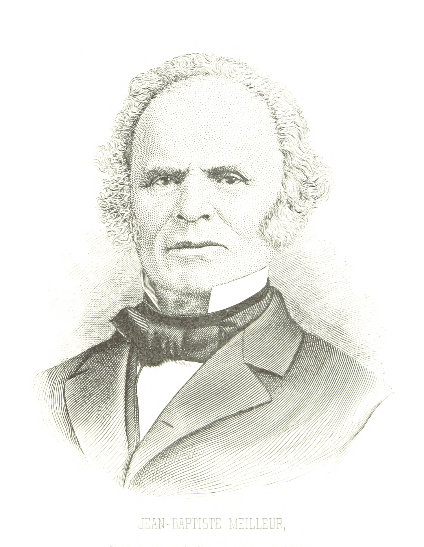 Image taken from: Title: "Histoire des Canadiens-Français. 1608-1880. Ouvrage orné de portraits et de plans" Author: SULTE, Benjamin. Shelfmark: "British Library HMNTS 9555.h.5.", "British Library HMNTS L.R.301.d.1." Volume: 03 Page: 91 Place of Publishing: Montréal Date of Publishing: 1882 Issuance: monographic Identifier: 003541367 Note: The colours, contrast and appearance of these illustrations are unlikely to be true to life. They are derived from scanned images that have been enhanced for machine interpretation and have been altered from their originals. Following this or the link above will take you to the British Library's integrated catalogue. You will be able to download a PDF of the book this image is taken from, as well as view the pages up close with the 'itemViewer'. Click on the 'related items' to search for the electronic version of this work. Click here to see all the illustrations in this book and click here to browse other illustrations published in books in the same year. Please click on the tags shown on the right-hand side for other ways to browse the illustrations.